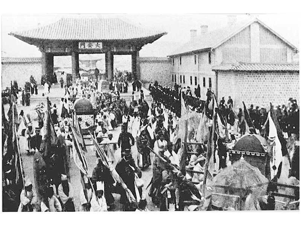 The march of the National Funeral of the deceased Empress Myeongseong 2 years after her assassination in 1895.